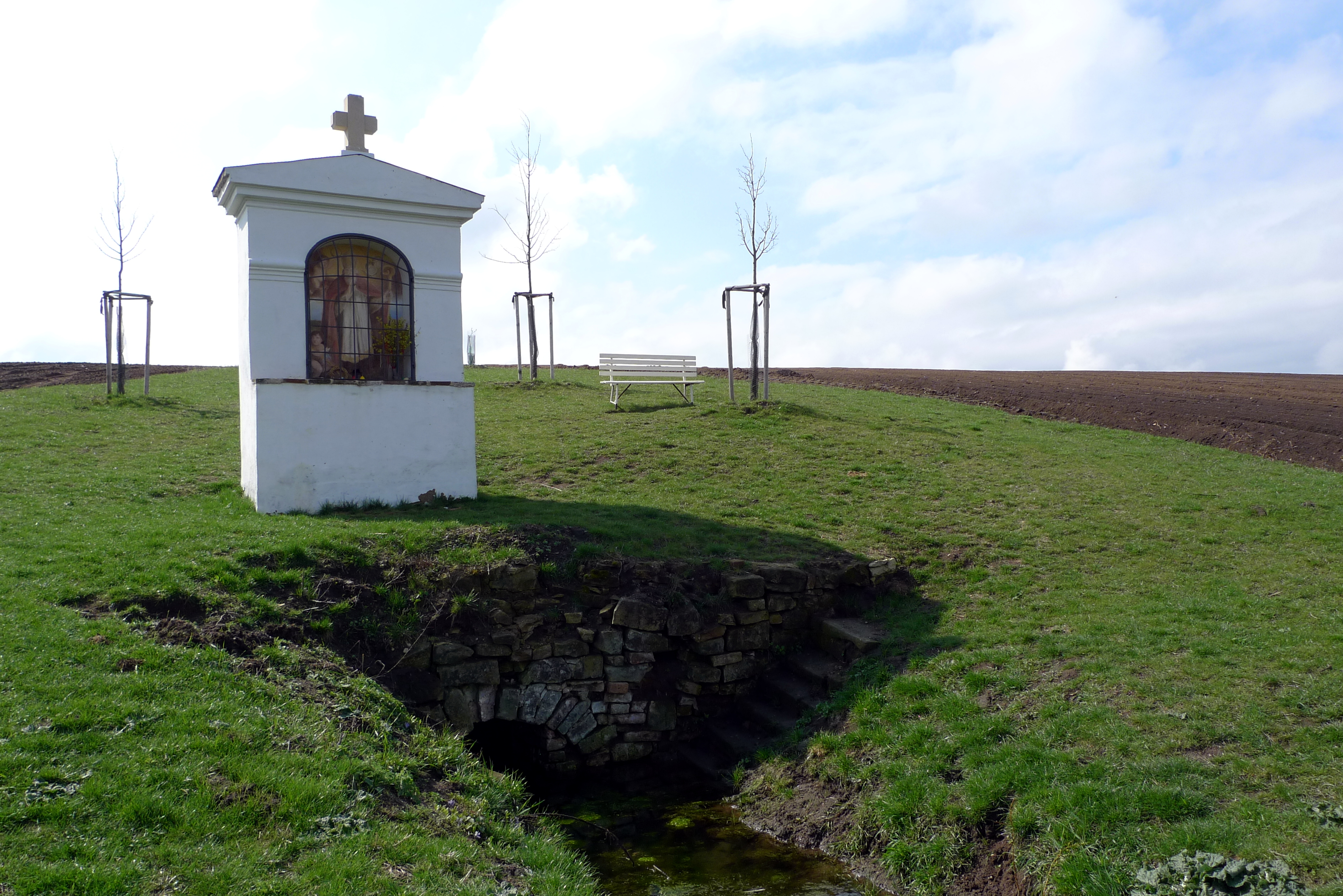 Kaplička sv. Vojtěcha se studánkou v Přerově nad Labem po rekonstrukci v roce 2010.